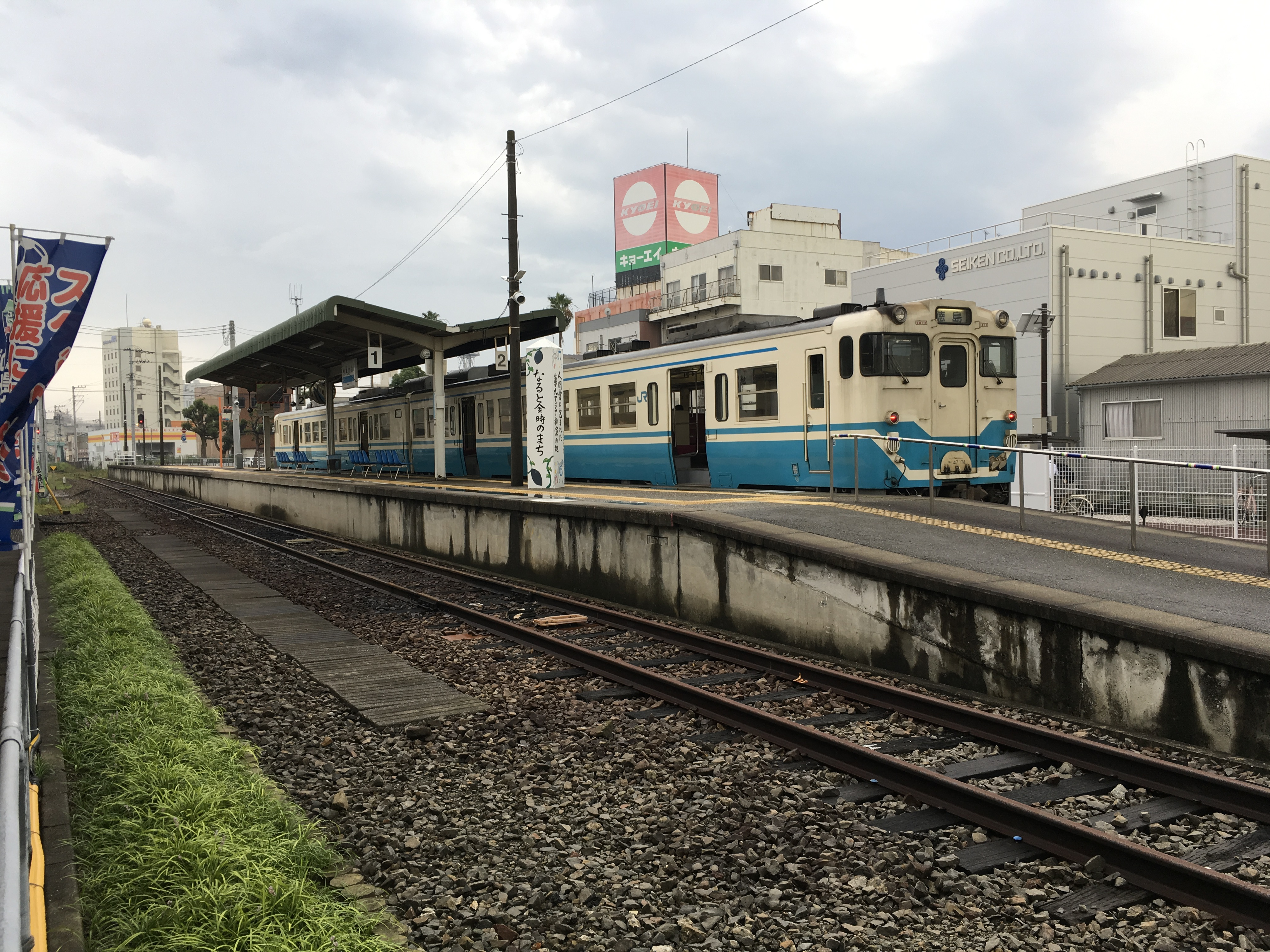 The photo of Naruto Station of JR Shikoku, shows the platform and a Kiha40 DMU.